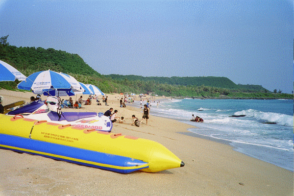 Baishawan beach, south of Taiwan